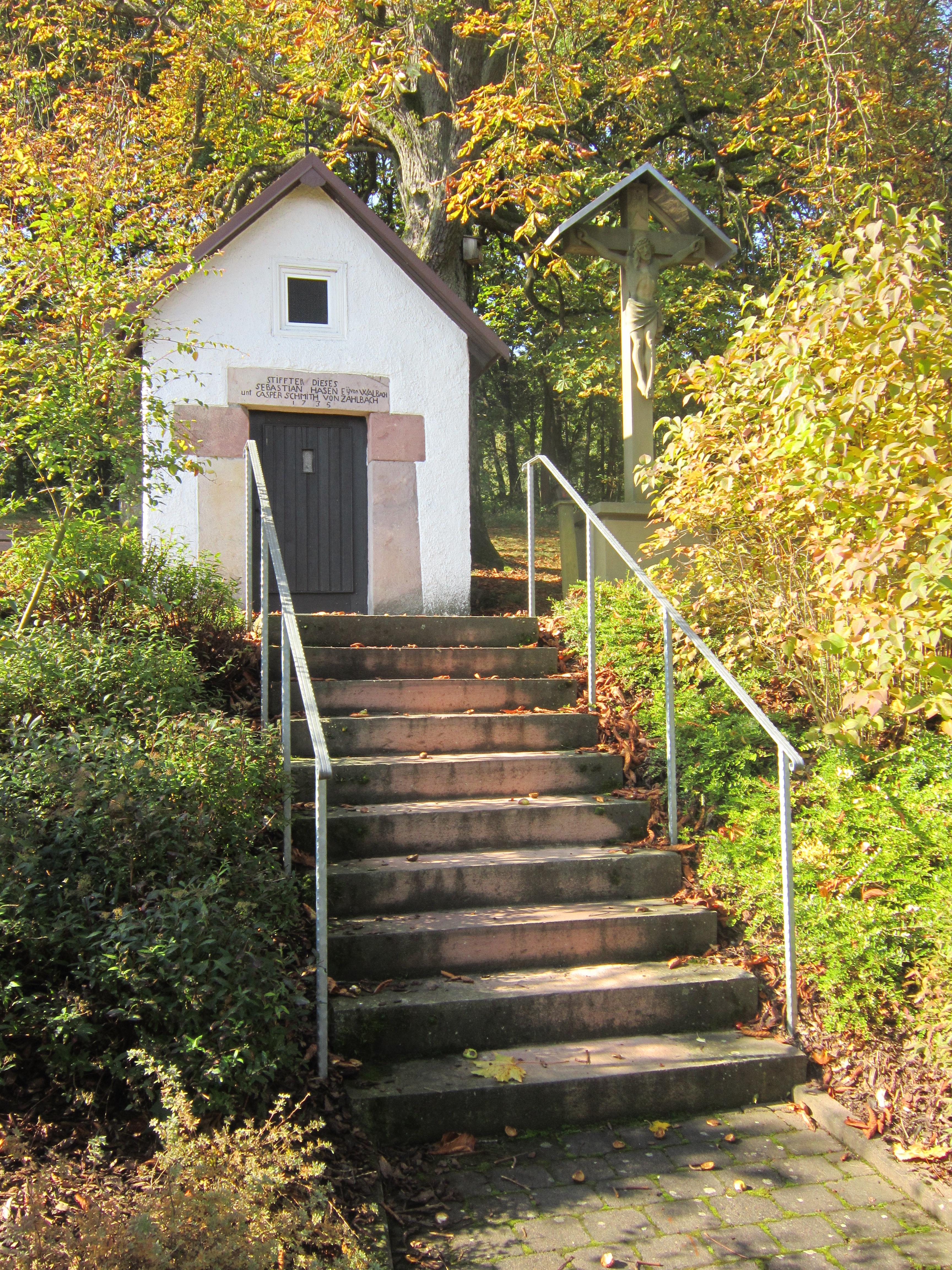 "Kreuzkapelle" in Zahlbach, a quarter of the German town of Burkardroth in Lower Franconia (Bavaria).